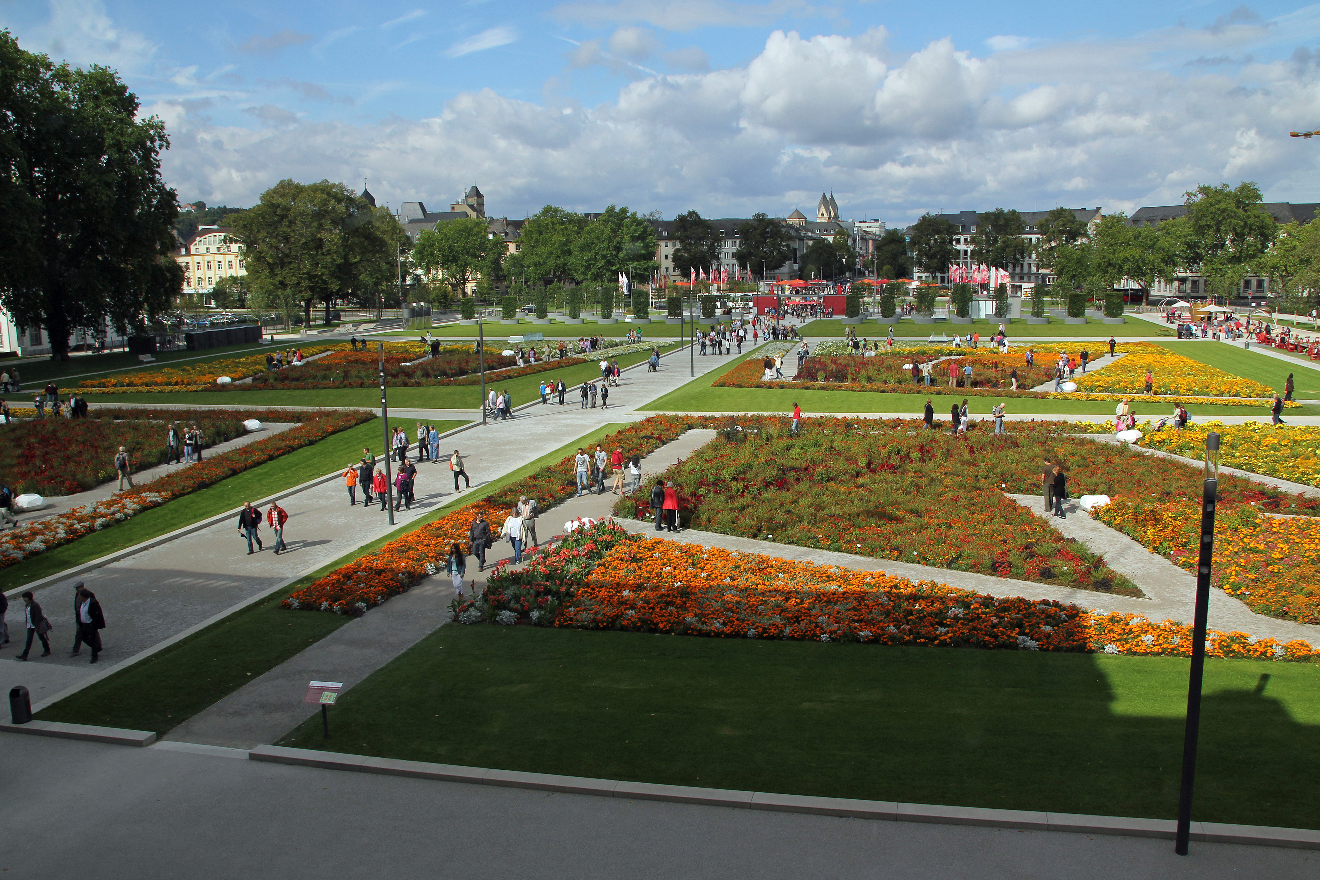 Federal Horticultural Show 2011 in Koblenz - Electoral Palace